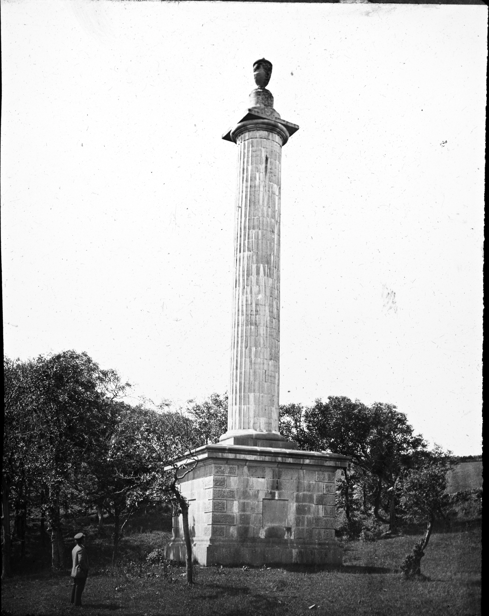 From matters locomotive to matters firmly fixed to the ground for Towering Tuesday. This is "Been's Pillar, Liscannor" according to the catalogue, but I admit that I don't remember seeing it there in my many visits... ... and so it seems while the location is broadly correct, the label isn't 100%. With thanks to [/photos/8468254@N02/ derangedlemur] & [/photos/beachcomberaustralia/ beachcomberaustralia], we learned today that this is O'Brien's Pillar by Bridget's Well near Liscannor, County Clare. Built in the 1850s, it is a memorial to Cornelius O'Brien (1782-1857), who - amongst other things - had a hand in the tourism development of the nearby Cliffs of Moher. For example, the also eponymous O'Brien's viewing tower at the cliffs. Will have to pay a little more attention the next time passing on the road from Lahinch to the cliffs... Photographer: Thomas H. Mason Collection: Mason Photographic Collection Date: Circa 1890 - 1910 NLI Ref: M40/22 You can also view this image, and many thousands of others, on the NLI’s catalogue at